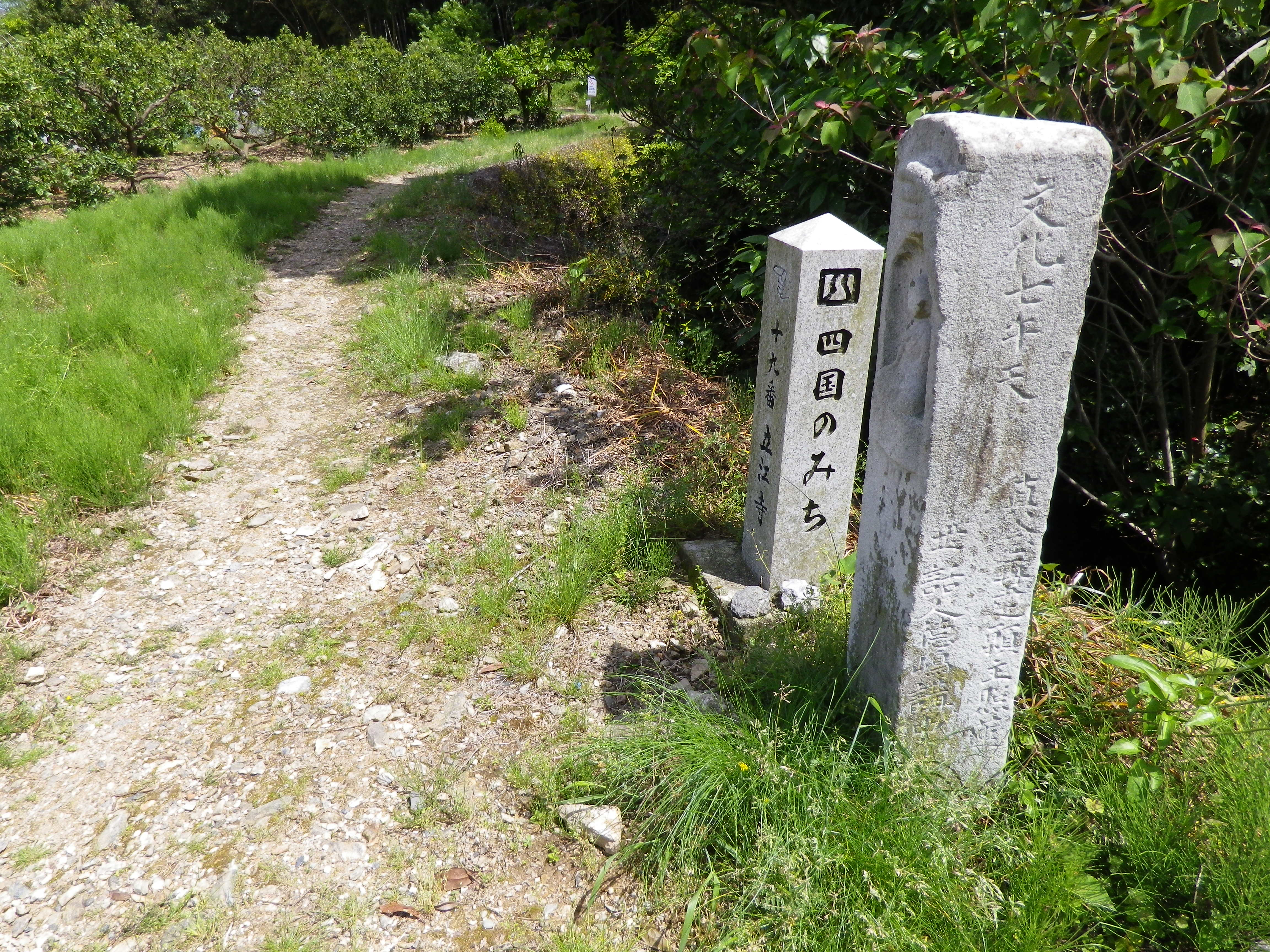 Henro-michi between Onzan-ji and Tatsue-ji